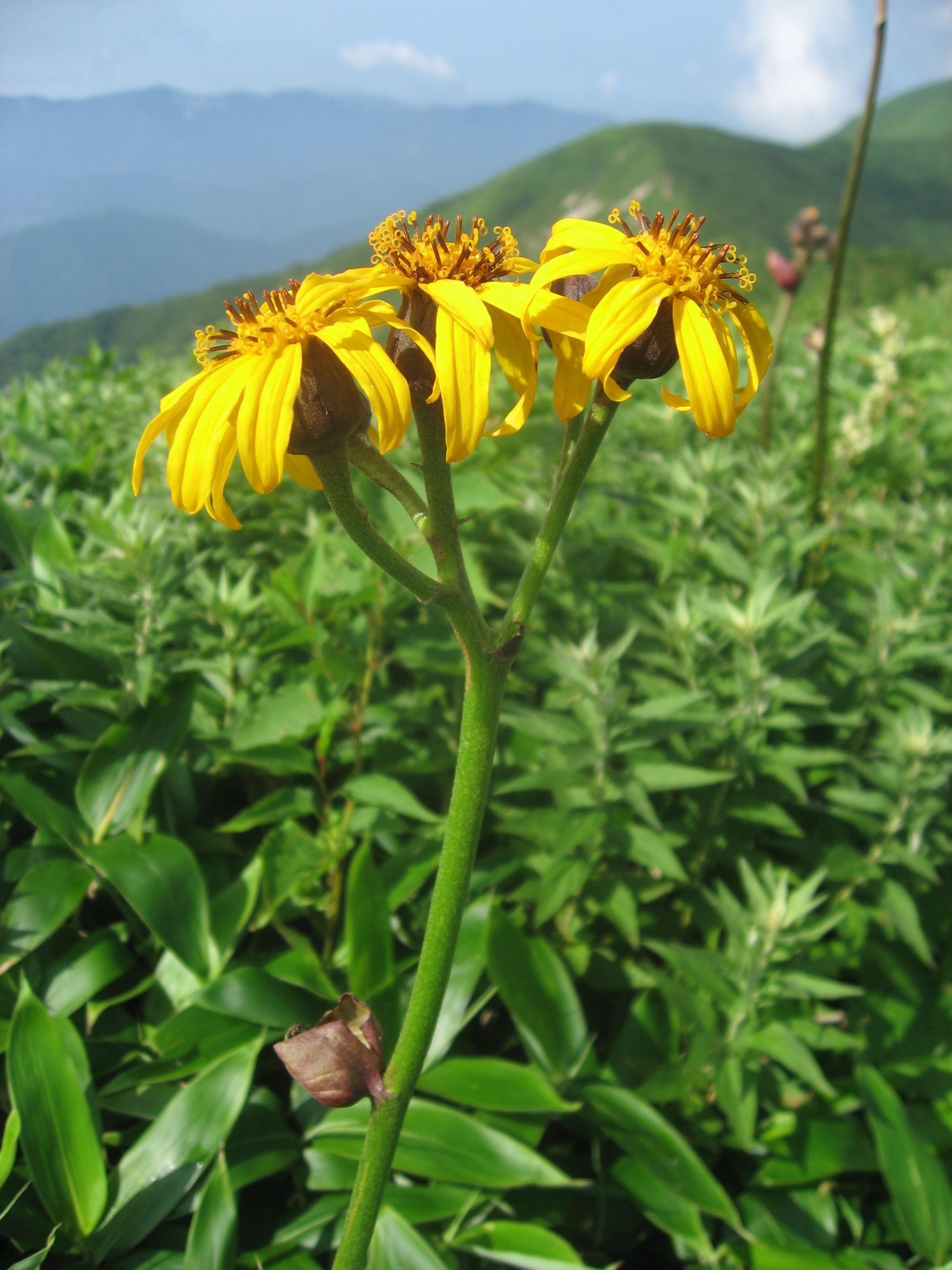 Ligularia dentata, Aizu area, Fukushima pref., Japan